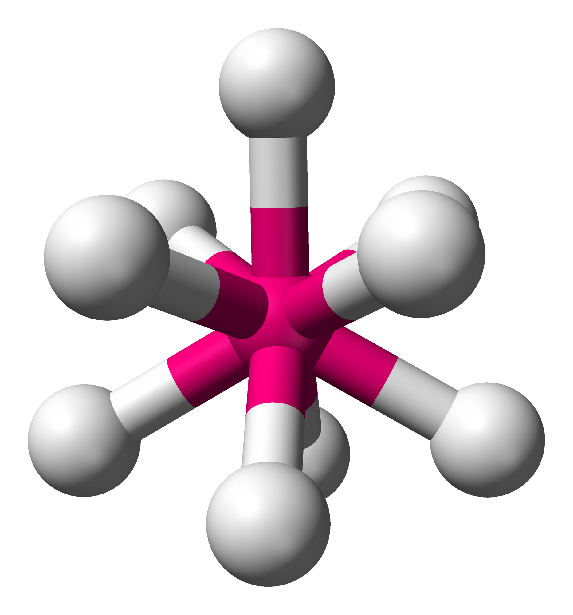 Ball-and-stick model of a generic molecule AX9E0 (from VSEPR theory) with a tricapped trigonal prismatic coordination geometry. Colour code: central atom, A: pink ligands, X: white Structure and image generated in Accelrys DS Visualizer.